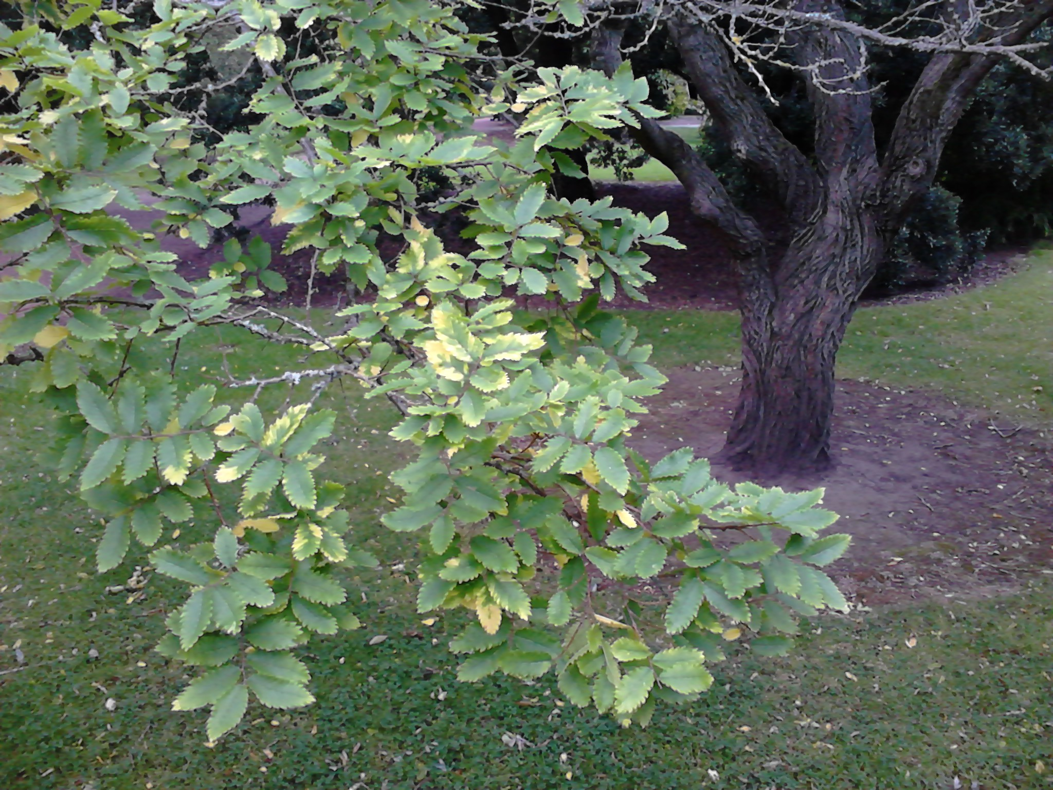 Hemiptelea davidii. Royal Botanic Gardens, Edinburgh